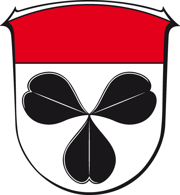 Coat of Arms of Londorf, part of Rabenau